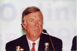 Prof. Ingolf Ruge